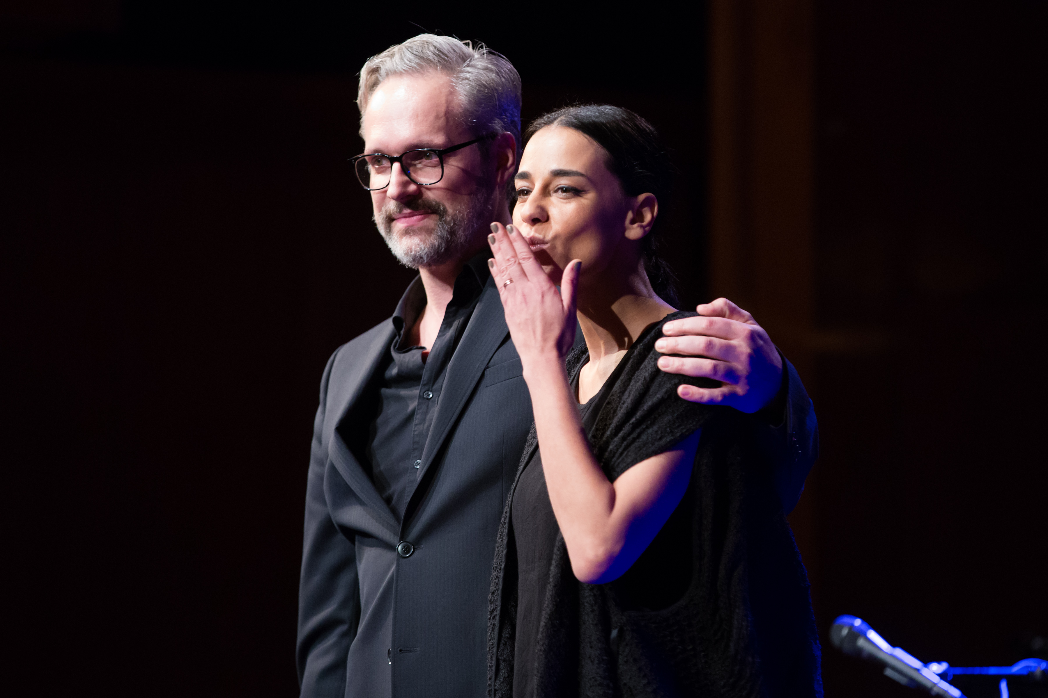 Madita and Axel Wolph, concert at the charity event An Evening for Licht ins Dunkel 2015 at Radiokulturhaus/Funkhaus Wien in Vienna, Austria.